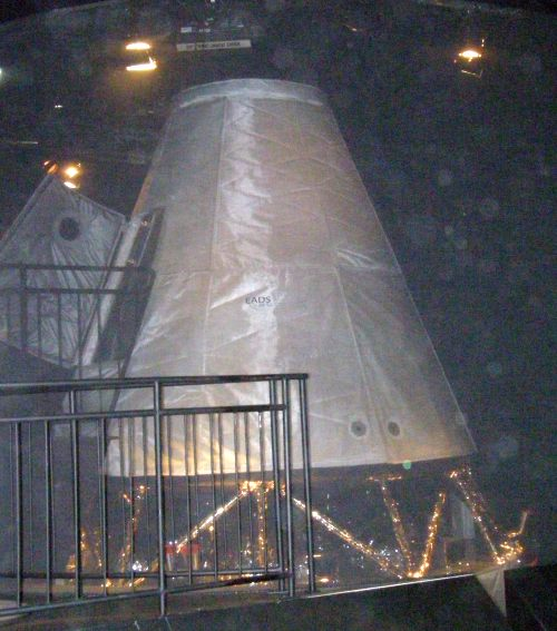 Mockup of the exterior of EADS-Astrium's concept for a European crew capsule, based on the Automated Transfer Vehicle.